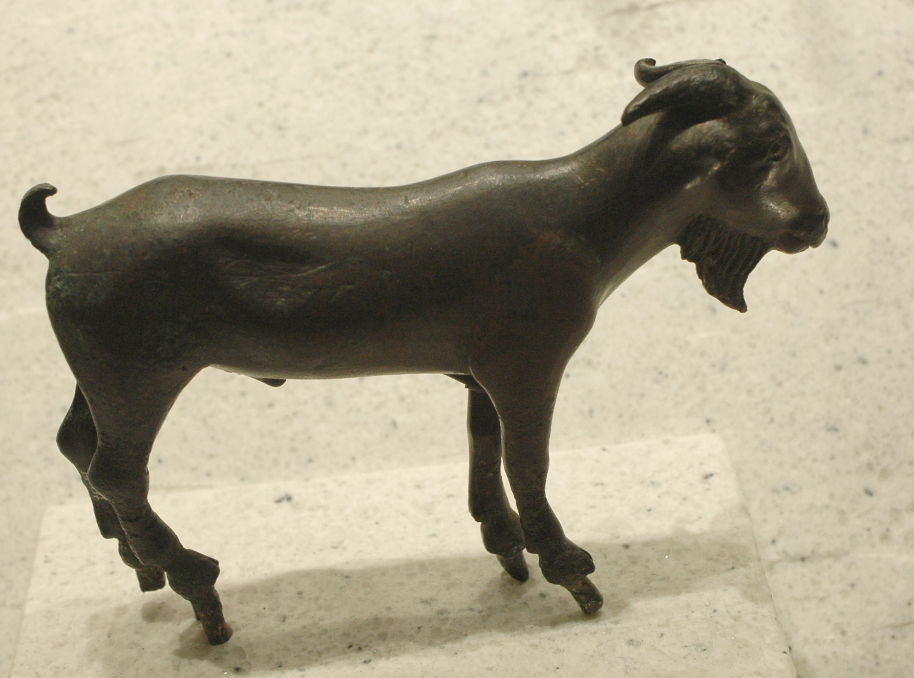 Bronze billygoat from the deme of Kephissia, may have been made in Attica, 5th century BC.